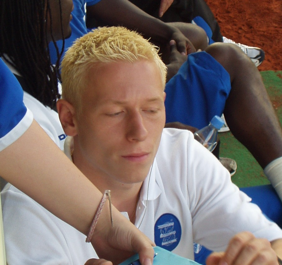 Finland football (soccer) striker Mikael Forssell of Birmingham City F.C. signs autographs at pre-season tournament at Weiden, Germany